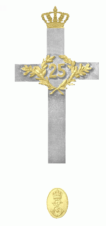 Cross for female domestic staff